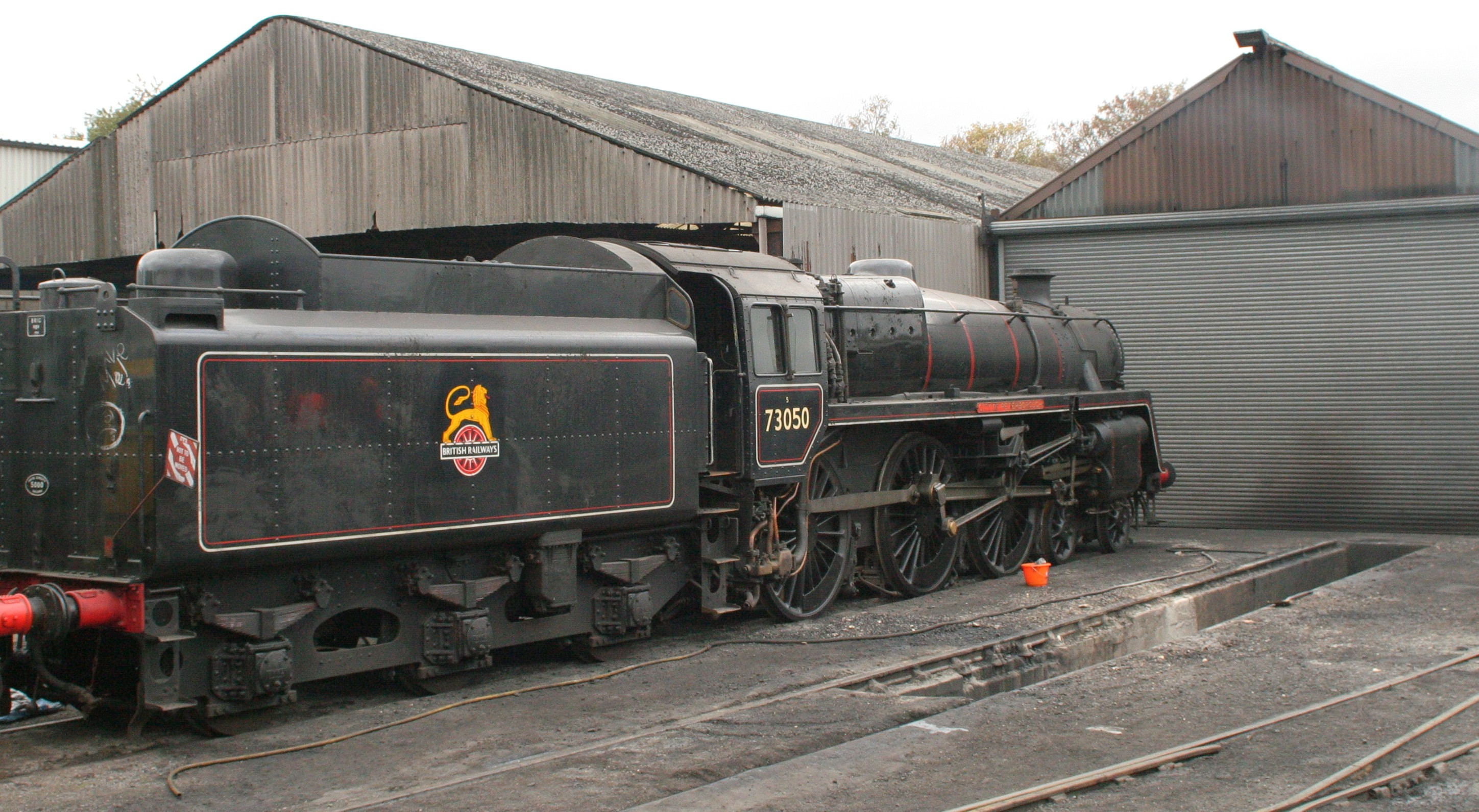 Not to be moved.